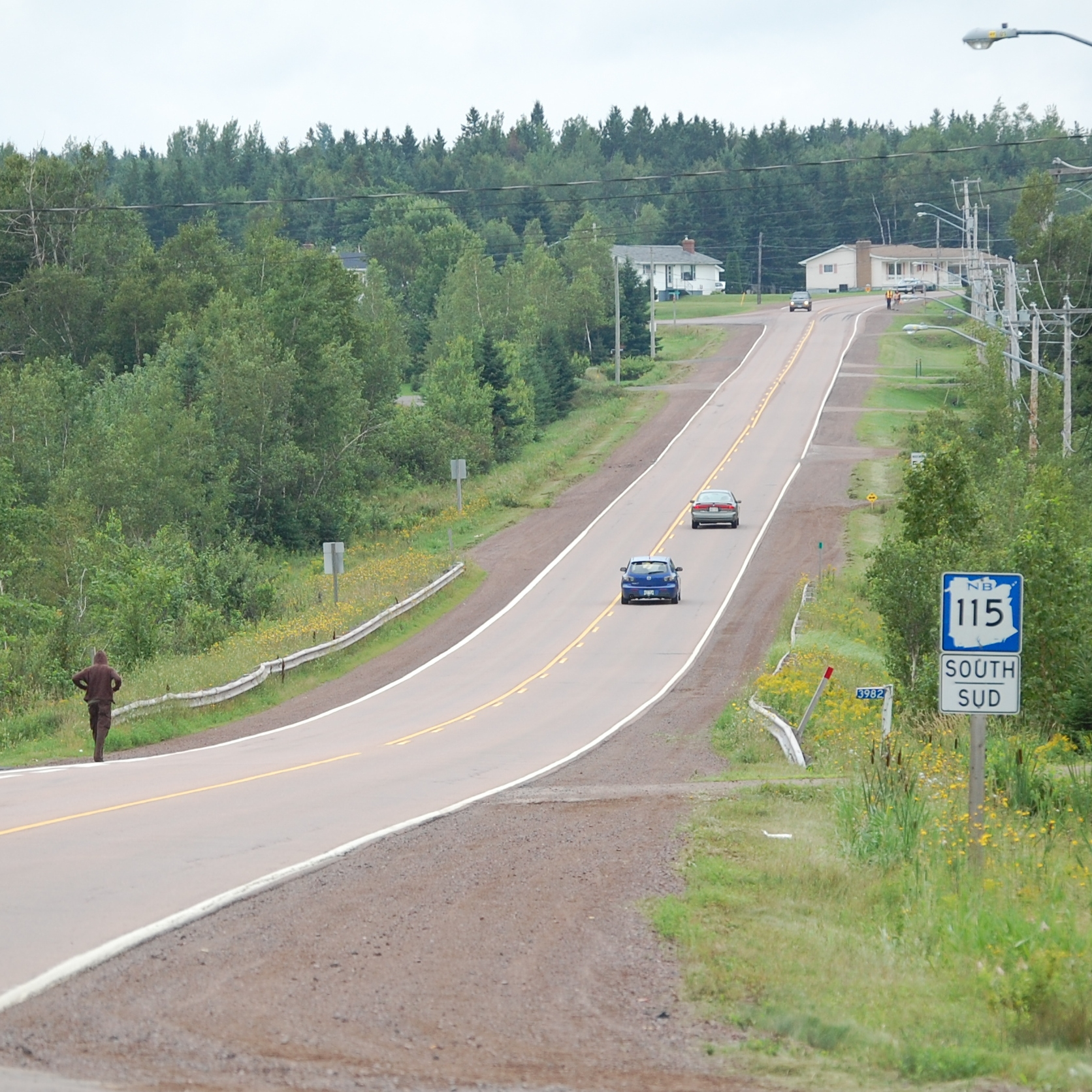 Route 115 in Kent County New Brunswick outside St. Antoine